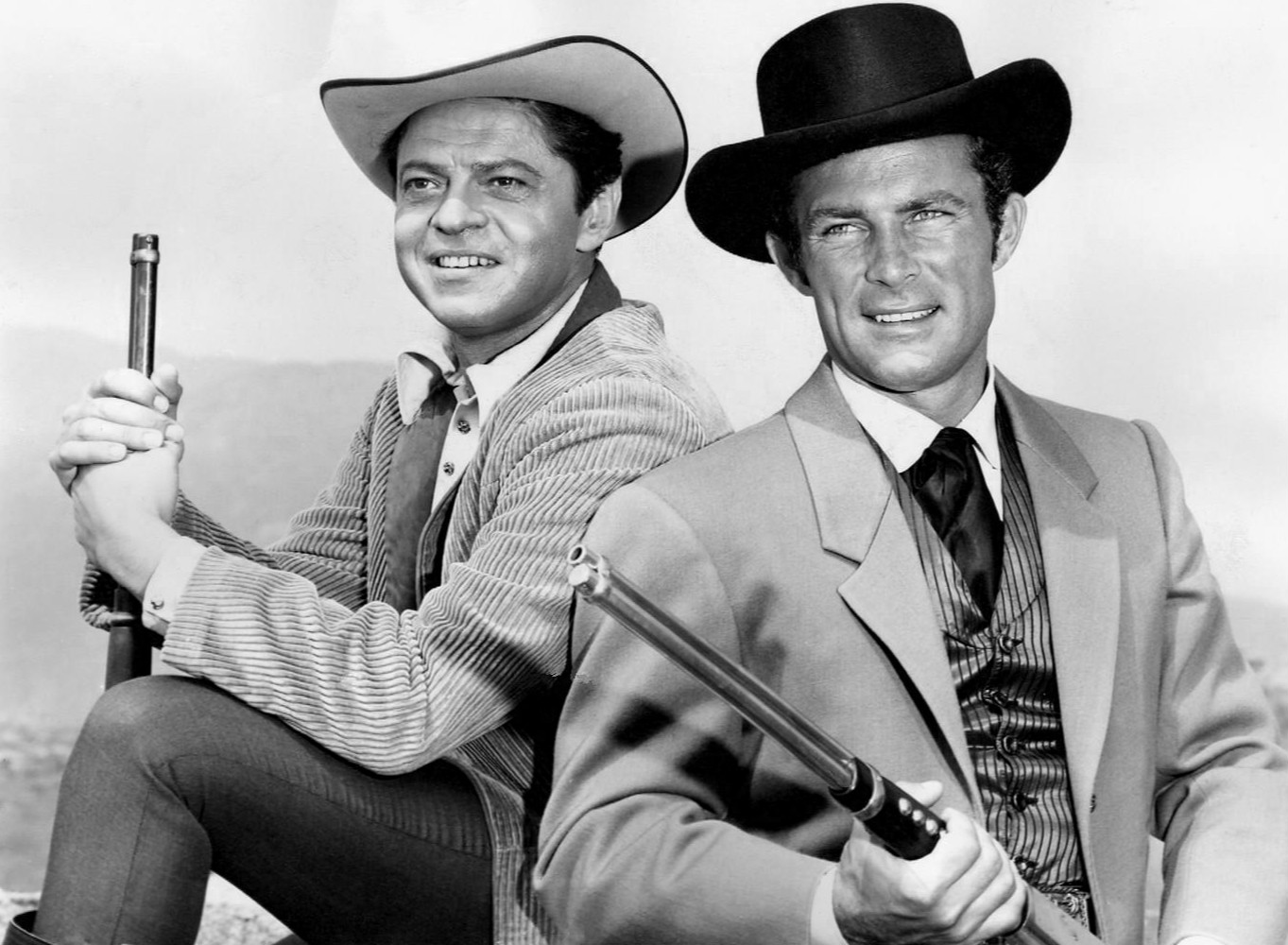 Photo of Ross Martin as Artemus Gordon and Robert Conrad as James West from the television program The Wild, Wild West.